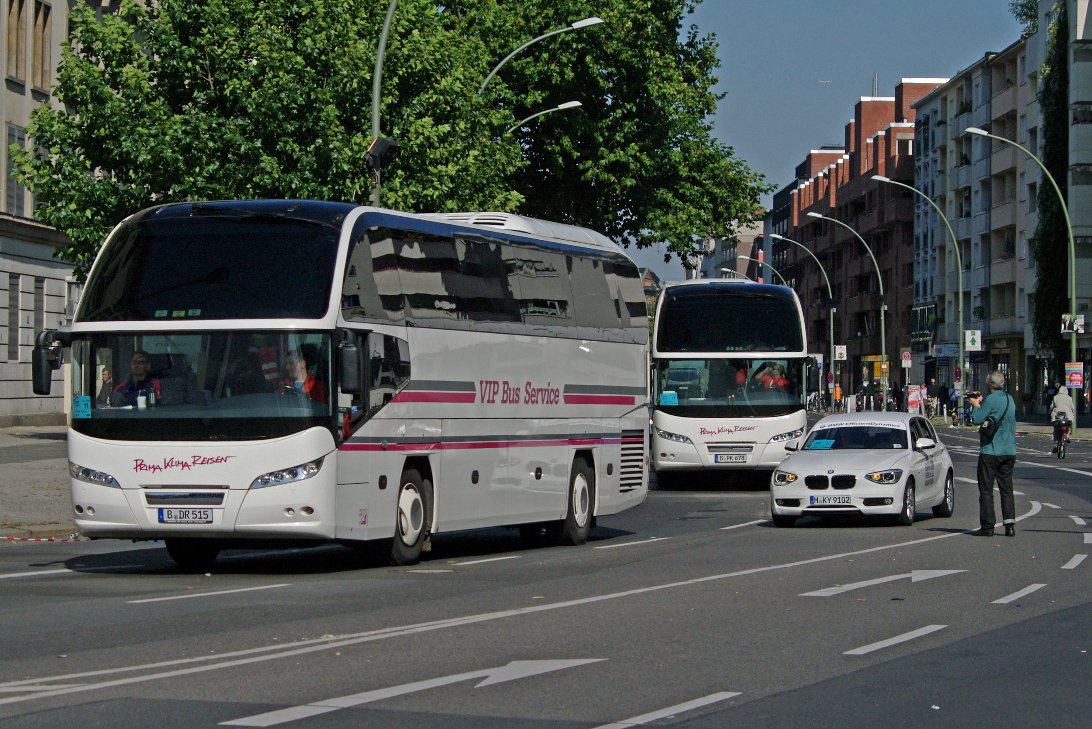 Broom waggons of the Berlin Marathon 2011 on Potsdamer Straße.